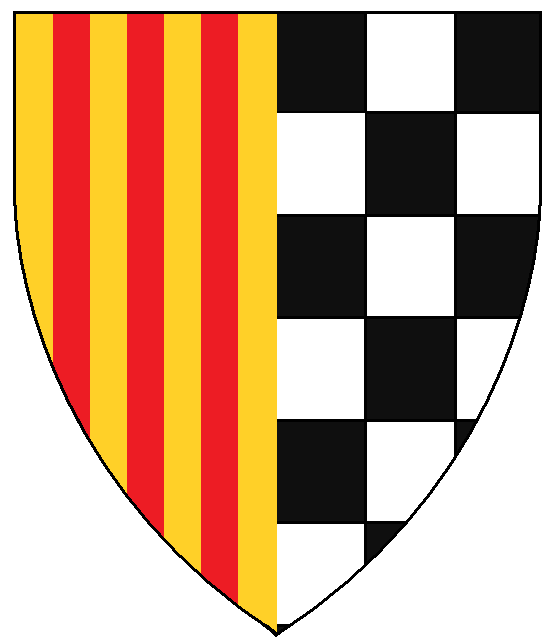 Coat of arms of the viscounts of Àger